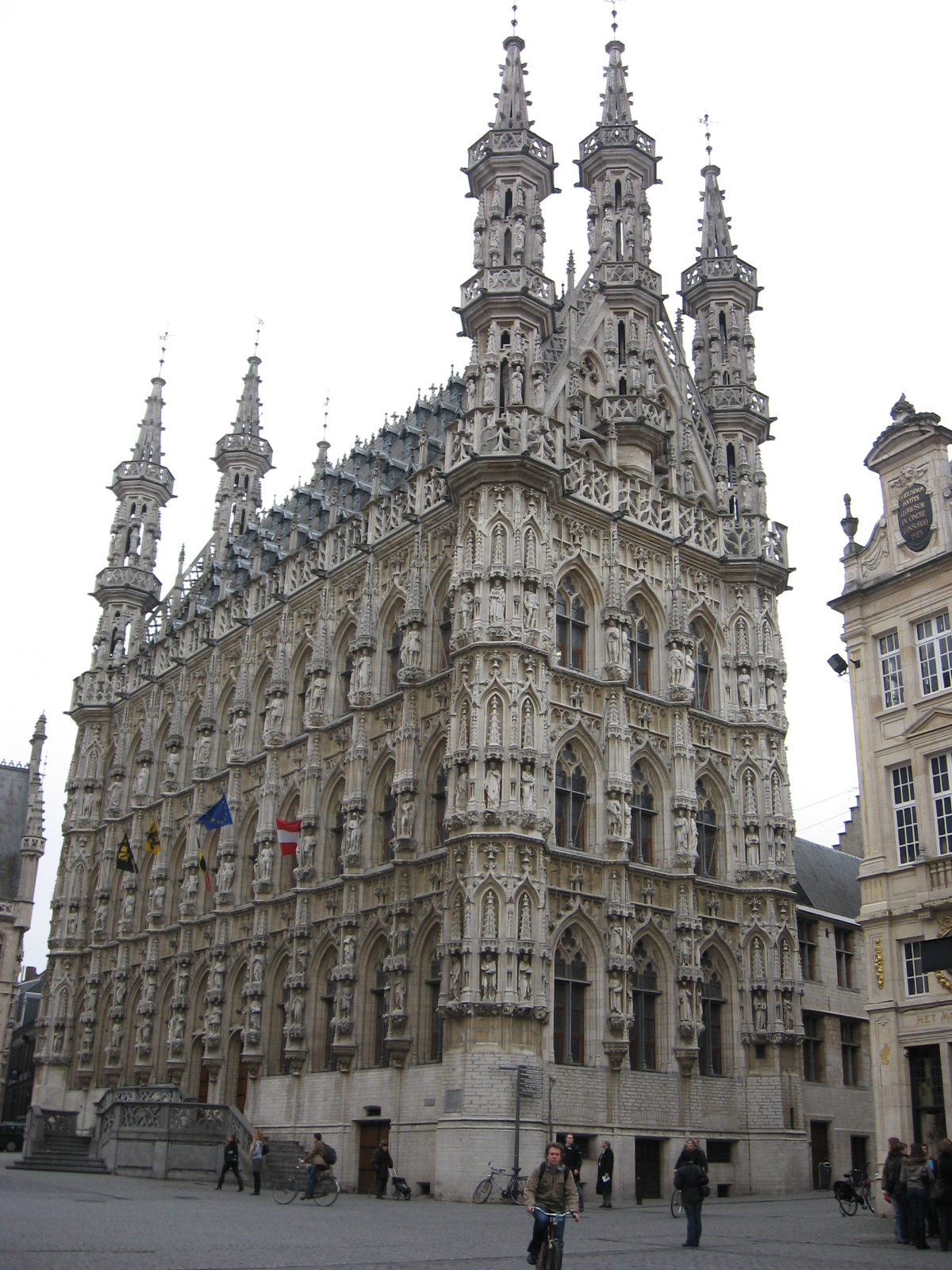 Leuven, town hall